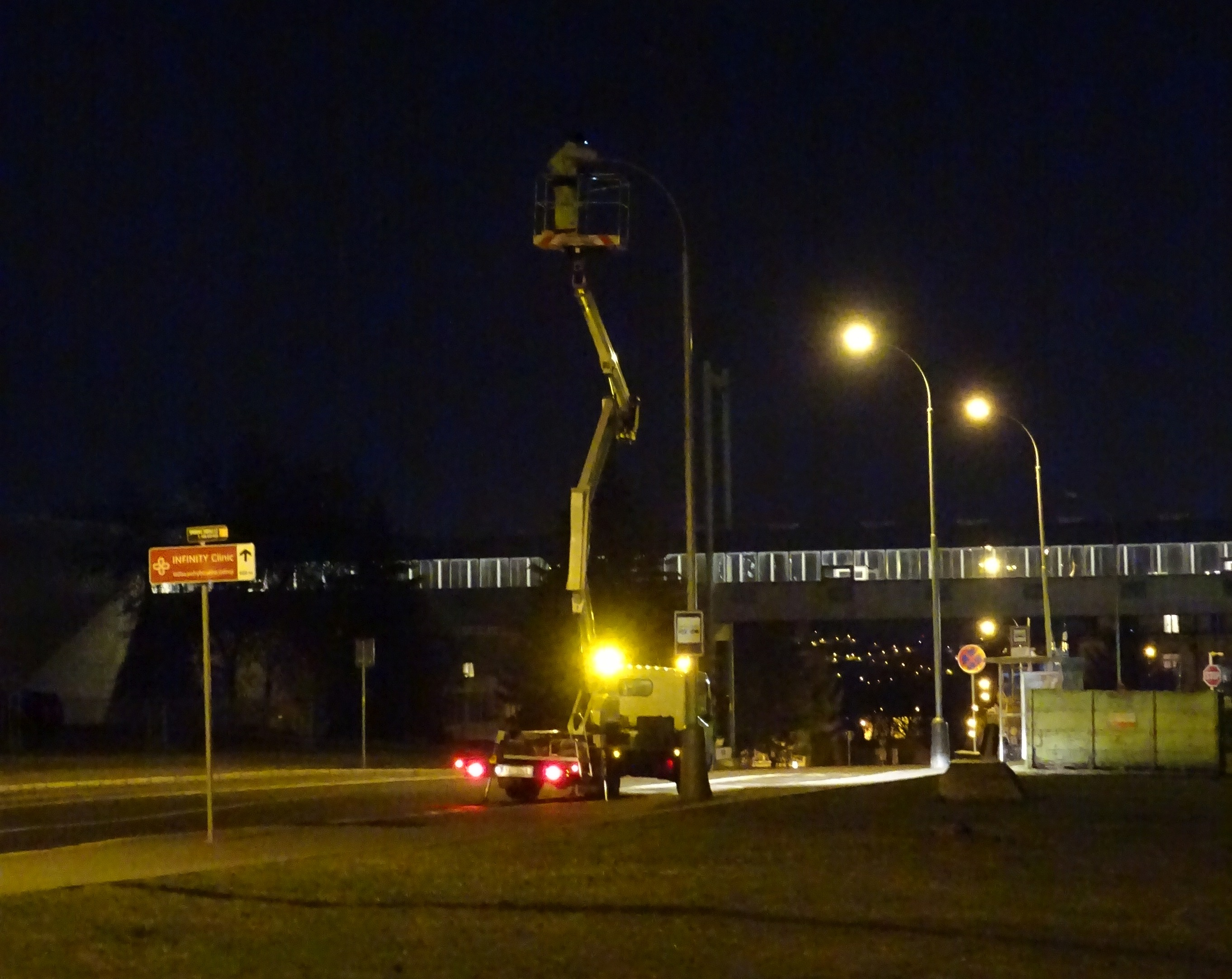 Prague-Podolí, Czechia. Na Klaudiánce street, streetlamp repair.